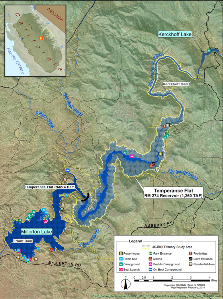 Proposed Temperance Flat dam as of January 2014 USBR report. Dam sits at river mile 274 and partially inundates both Millerton and Kerckhoff reservoirs.